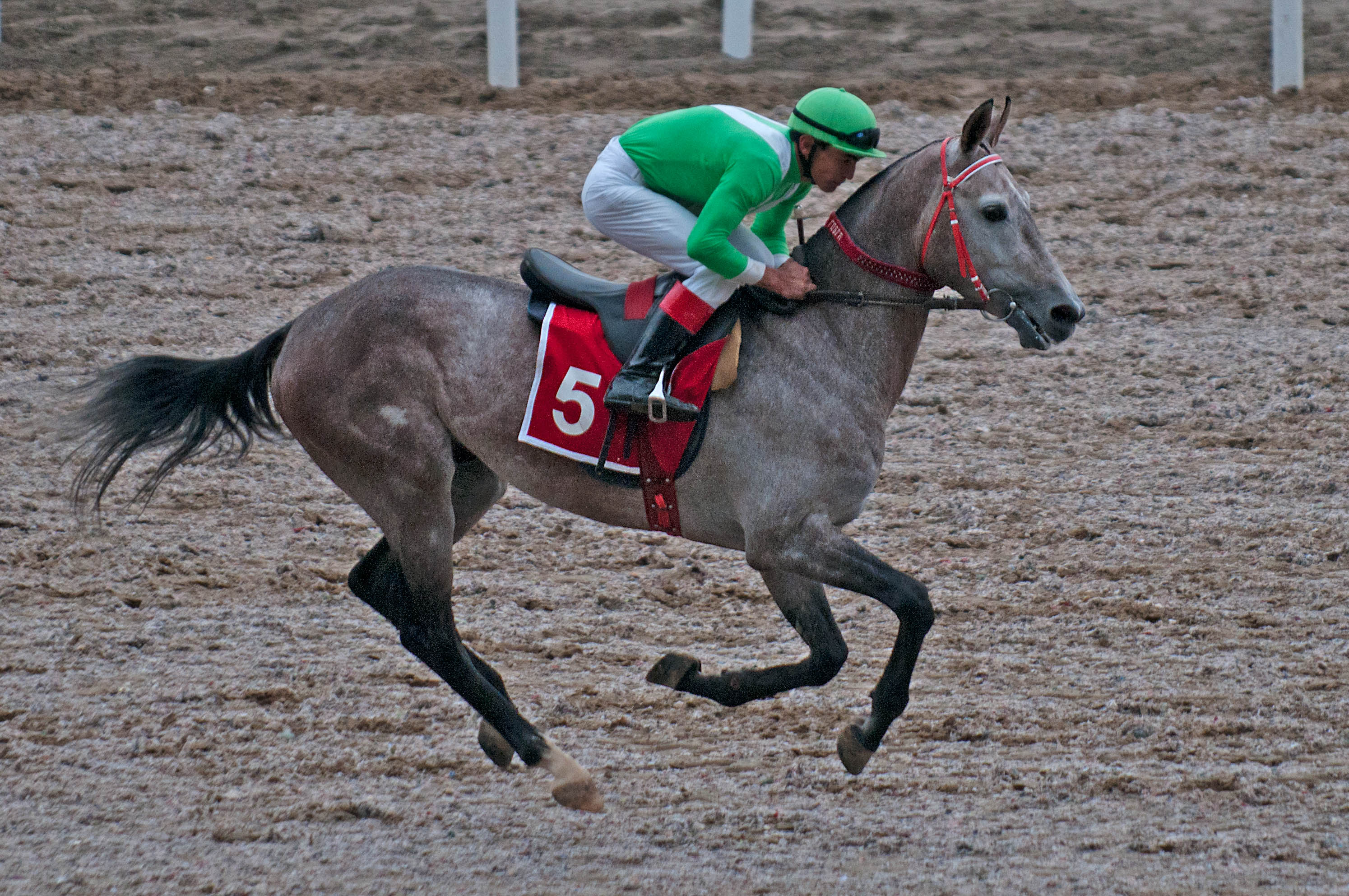 Opening of the Ahal Velayat Equestrian Complex